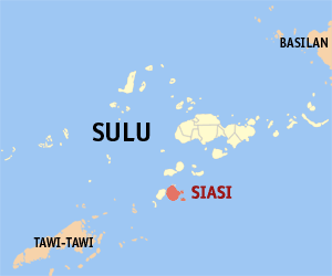 Map of the Sulu showing the location of Siasi